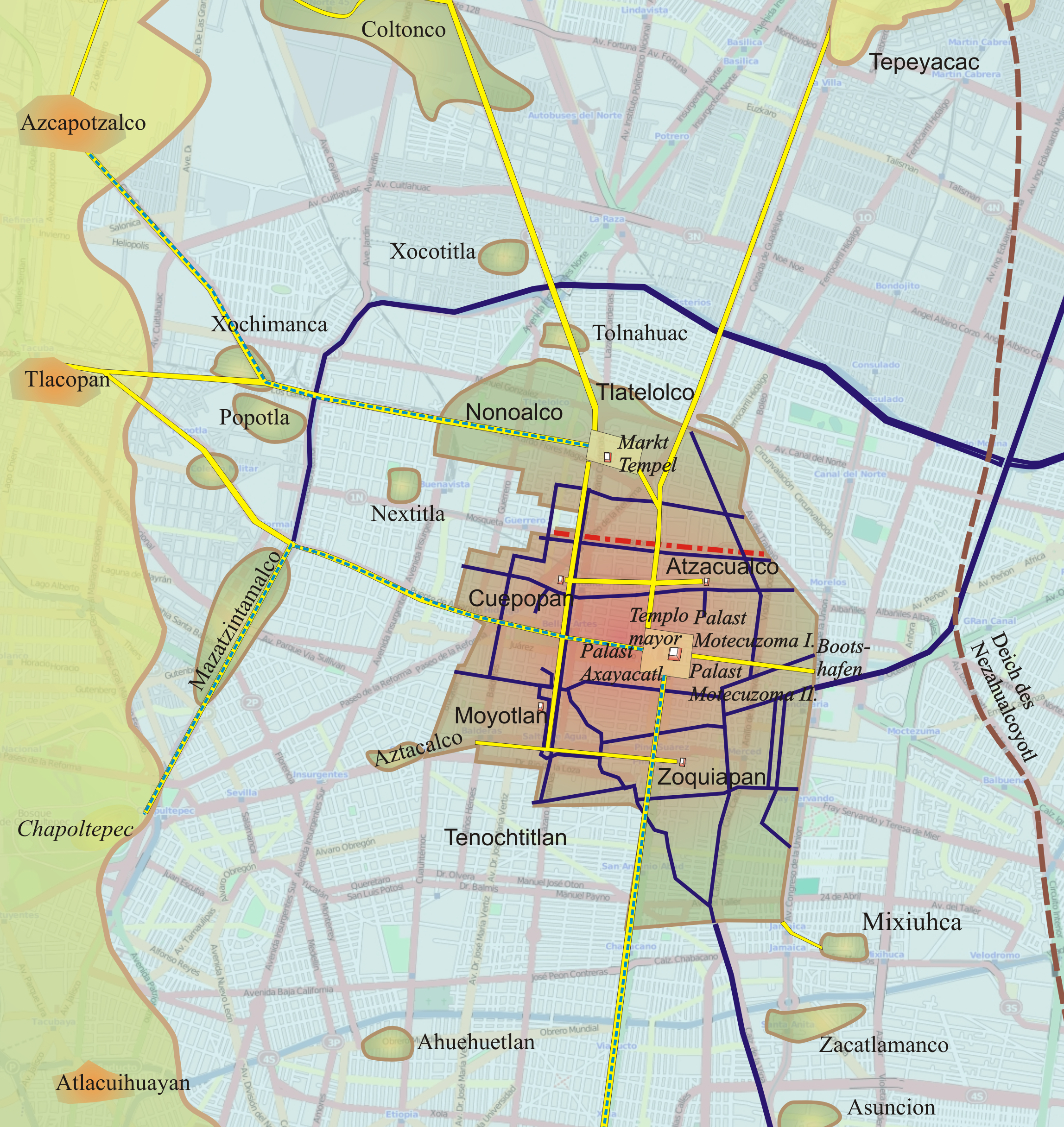 Map showing areas of Mexico City (México, D. F.) built on the former lakebed of historical Lake Texcoco — with a gray background. Yellow or green backgrounds indicate dry land of historic islands and shorelines. Lake's landfill areas include Central Mexico City, and many of the Boroughs of Mexico, D. F..